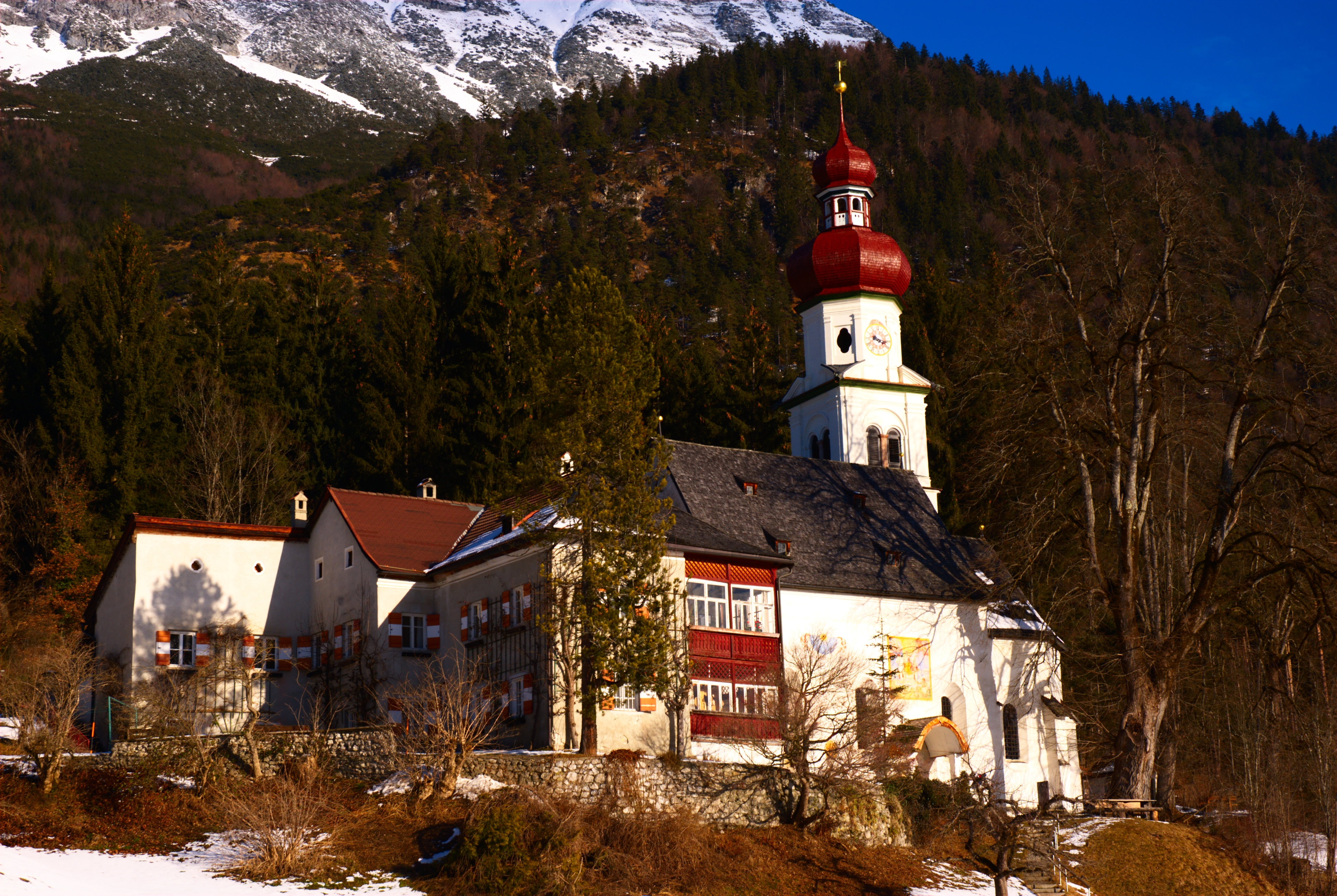 Church and monastery of St. Martin im Gnadenwald